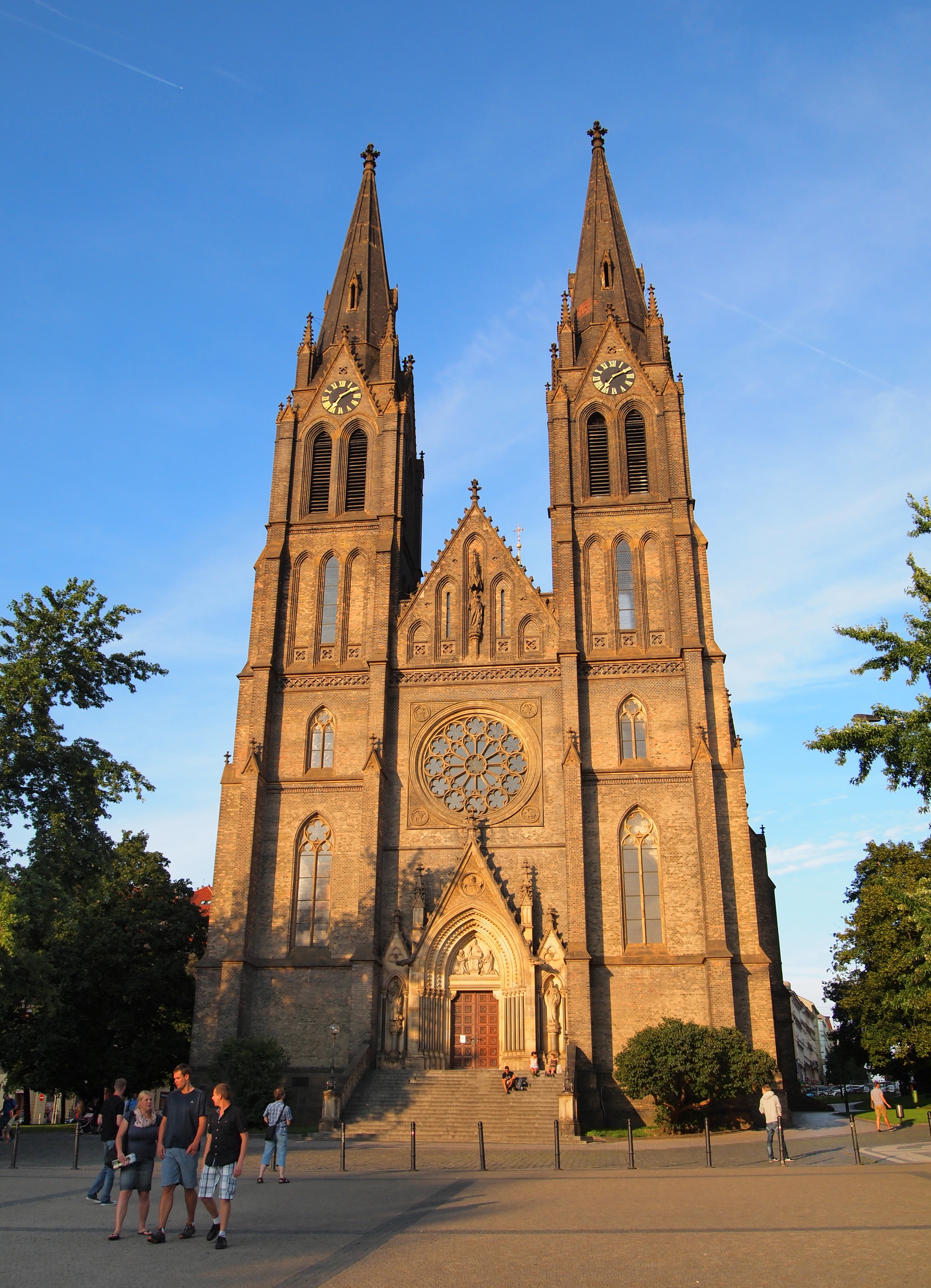 View of Church of Saint Ludmila in Prague. This photograph was taken with an Olympus E-PL1